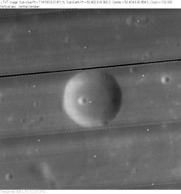 LO-IV-060H Ibn Battuta is the circular crater in the center. The other features in this view are unnamed.